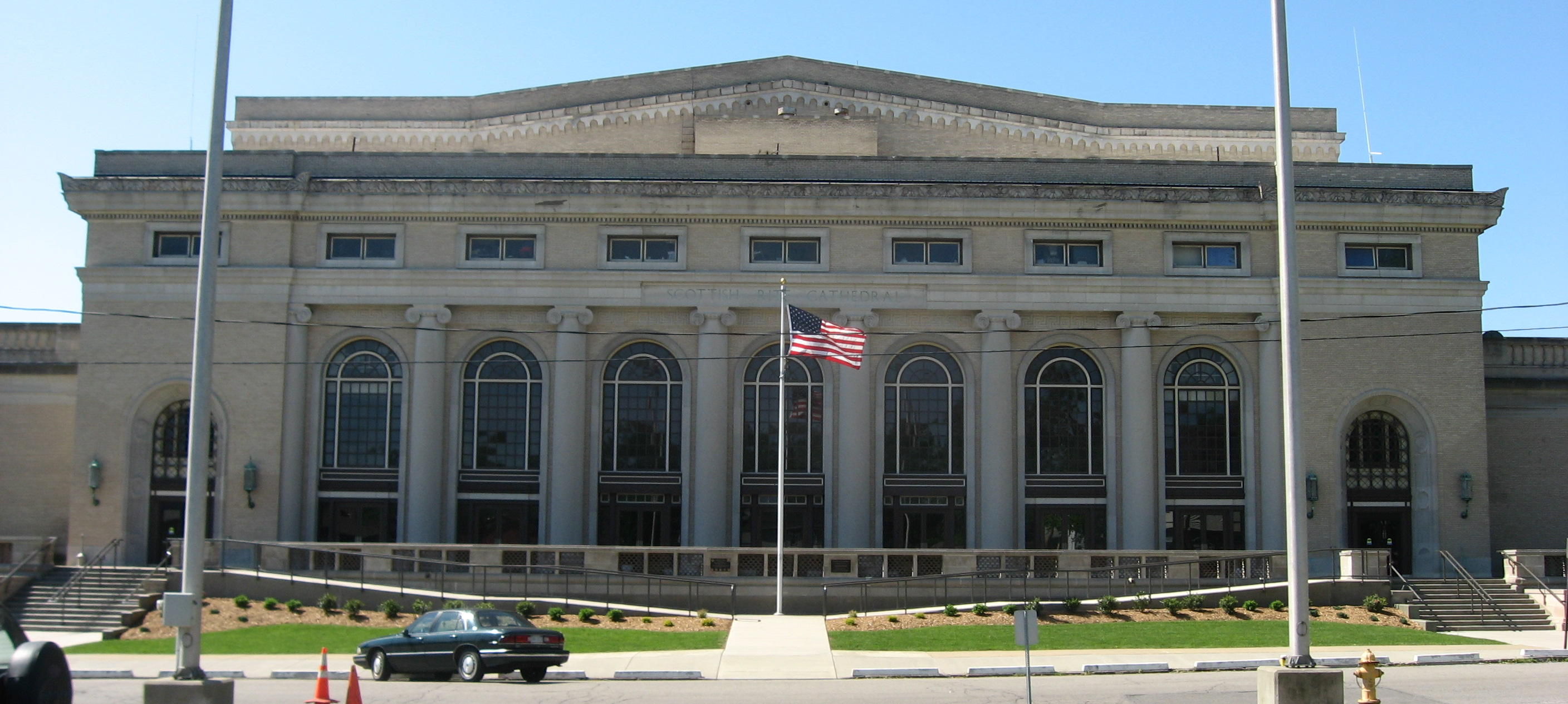 Front of the Scottish Rite Cathedral, located at 110 E. Lincoln Avenue in New Castle, Pennsylvania, United States. Built in 1926, the cathedral is listed on the National Register of Historic Places.